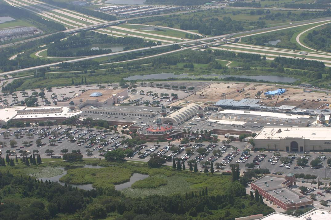 Brandon Mall, Brandon, Florida. Aerial photograph.